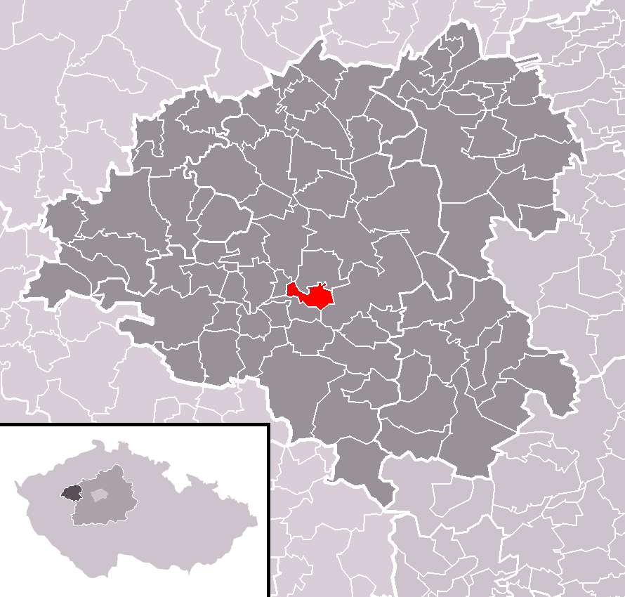 Location of Senec municipality within Rakovník District and (identical) administrative area of Rakovník as a Municipality with Extended Competence.